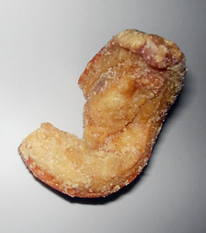 enWP description by Hassocks5489: "Picture of an individual pork scratching from a bag purchased in the UK. Photographed on 29th November 2006."